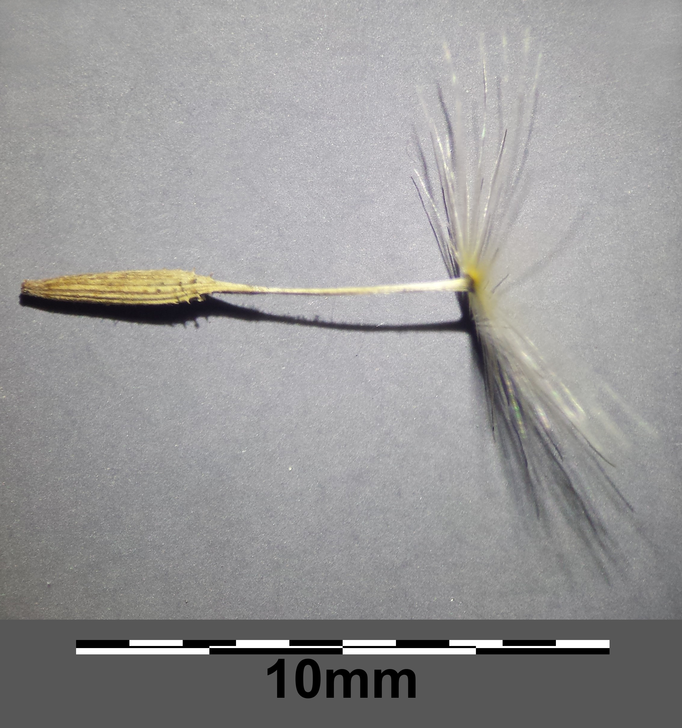 Fruit with pappus Taxonym: Taraxacum bessarabicum ss Fischer et al. EfÖLS 2008 ISBN 978-3-85474-187-9 Location: next to Wörtenlacke near Apetlon, district Neusiedl am See, Burgenland, Austria - ca. 120 m a.s.l. Habitat: salt meadows